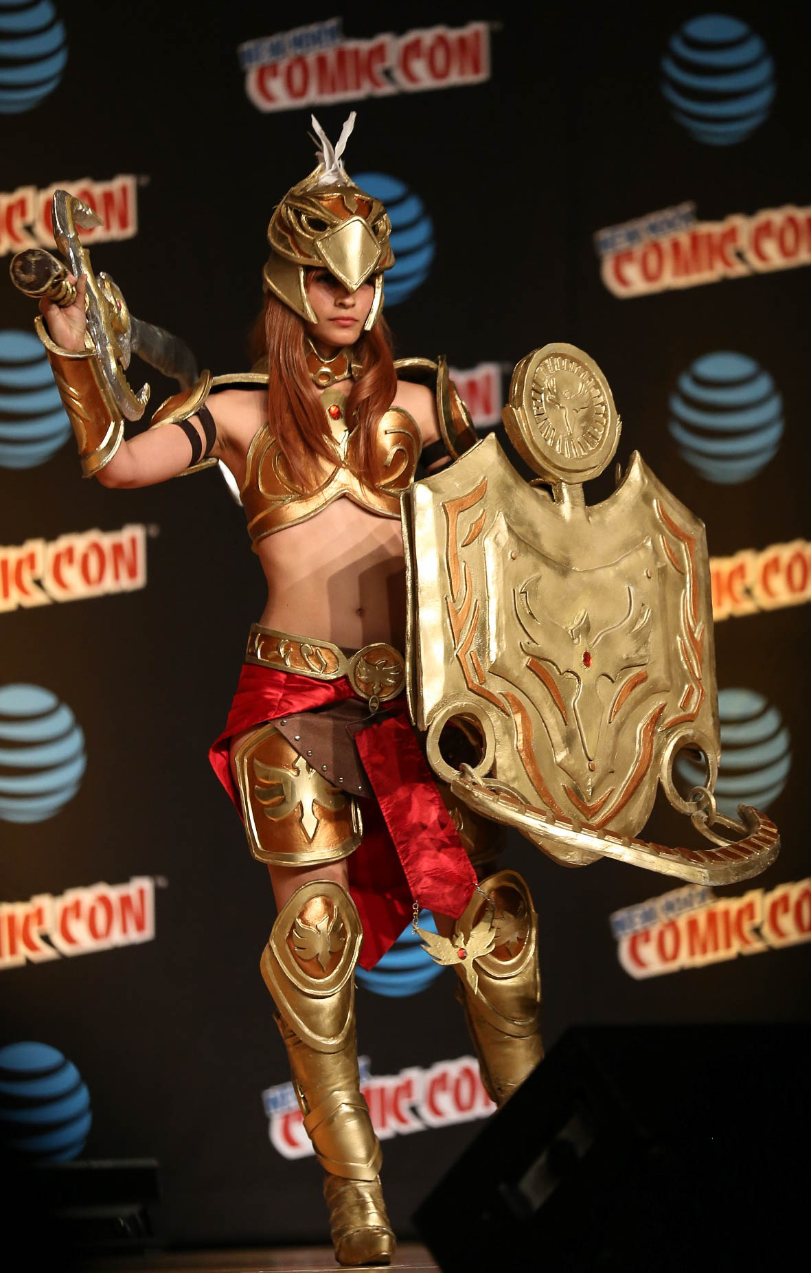 Katherine Chavez, aka Kath Dragons, cosplaying as Valkyrie Leona (from League of Legends) in the Eastern Championships of Cosplay contest at the 2016 New York Comic Con.